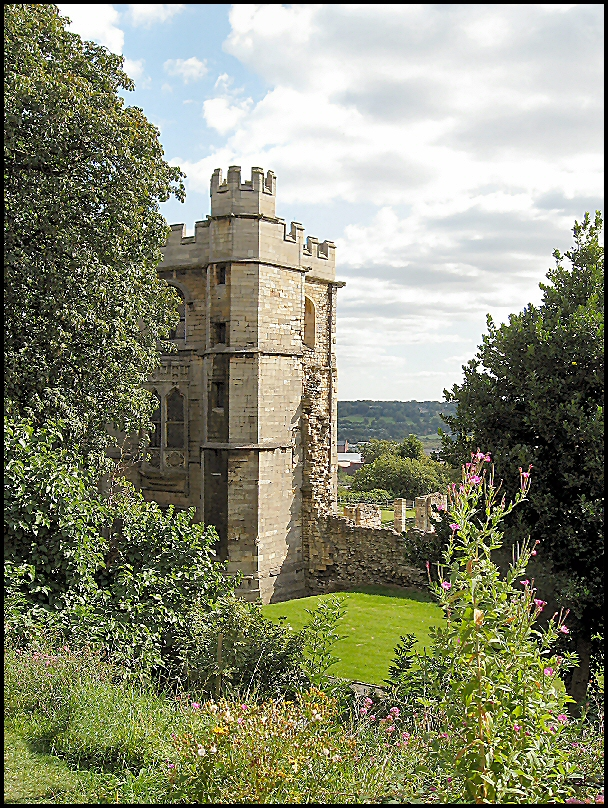 Lincoln Medieval Bishops' Palace is a 12th century stone enclosure fortress standing almost in the shadow of Lincoln Cathedral and and is one of the most impressive medieval clerical house's in England.